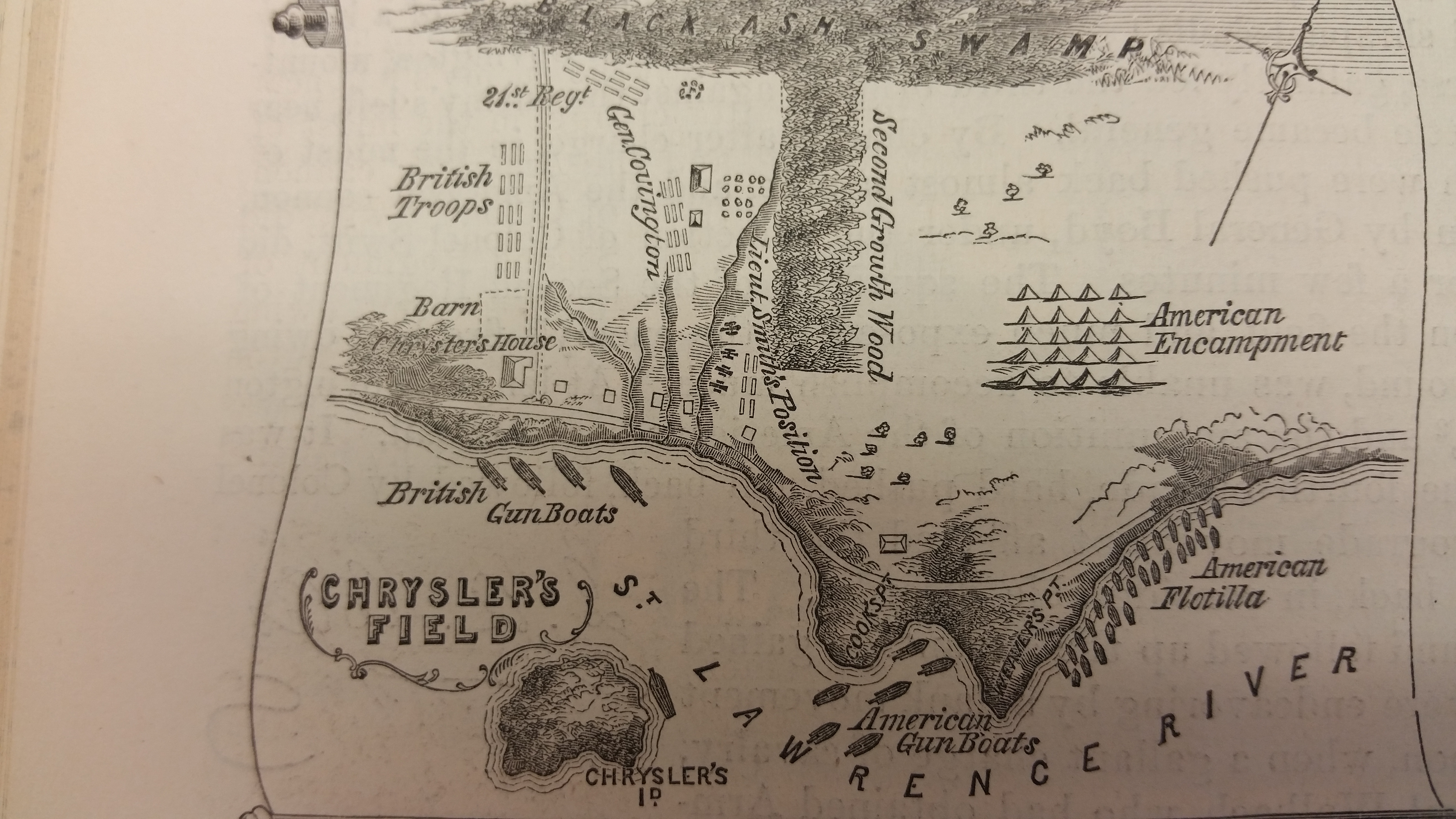 Battle of Chrysler's Farm II